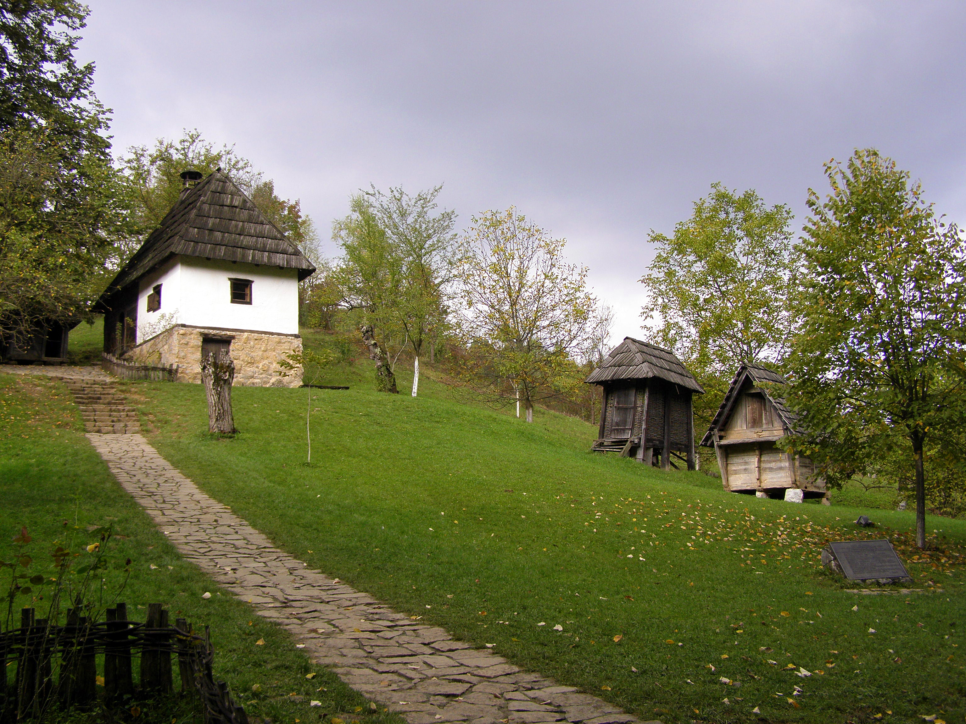 The birth house of Vuk Stefanović Karadžić (1787-1864), Tršić, Serbia.